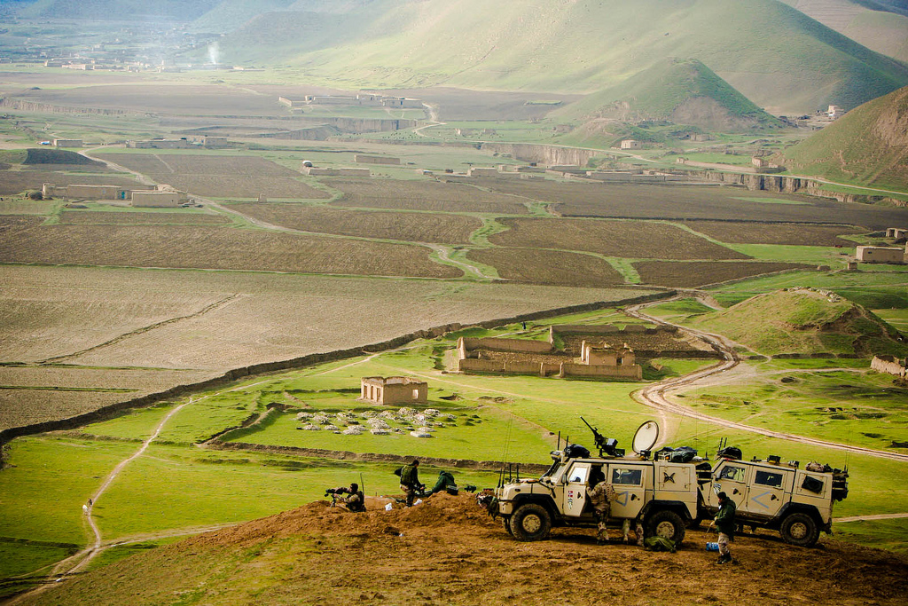 Norwegian soldiers on a patrol in Faryab Province, Afghanistan. The International Security Assistance Force (ISAF) is a NATO-led, 43-nation military coalition dedicated to helping Afghan authorities provide security and stability and create the conditions for reconstruction and development.